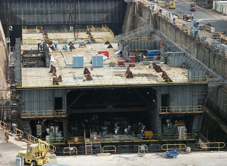 Construction site of the Projection and Command vessel Mistral, being assembled in the dock n°9 of the Brest arsenal